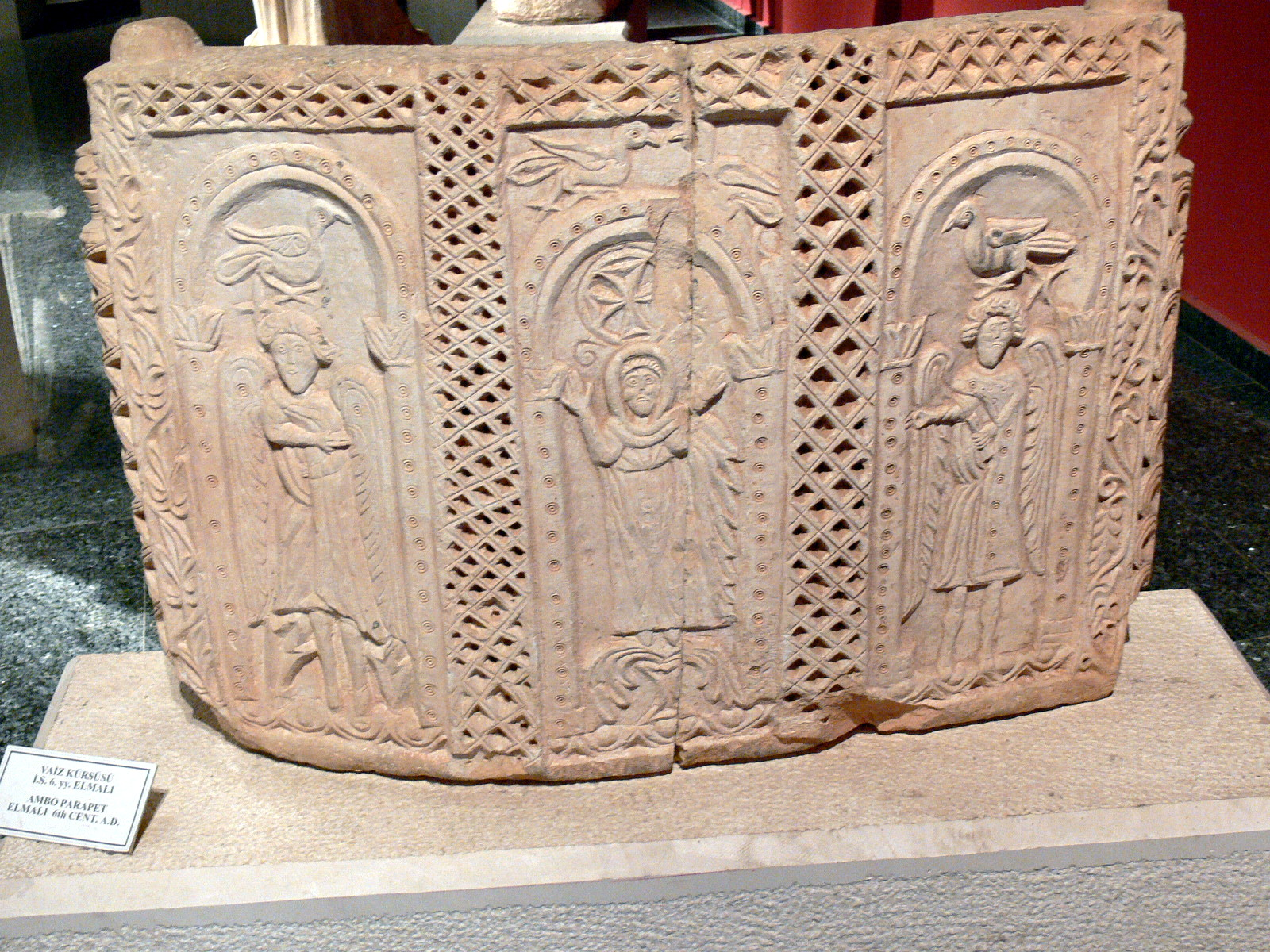 Antalya Archaeological Museum. Ambo ( 6th century ) from Vaiz Kürsüsü ( Elmali ) showing two angels flanking virgin Mary.